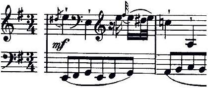 Classical music. Public domain. Old edition. Trio pour piano nº 44 de Joseph Haydn.